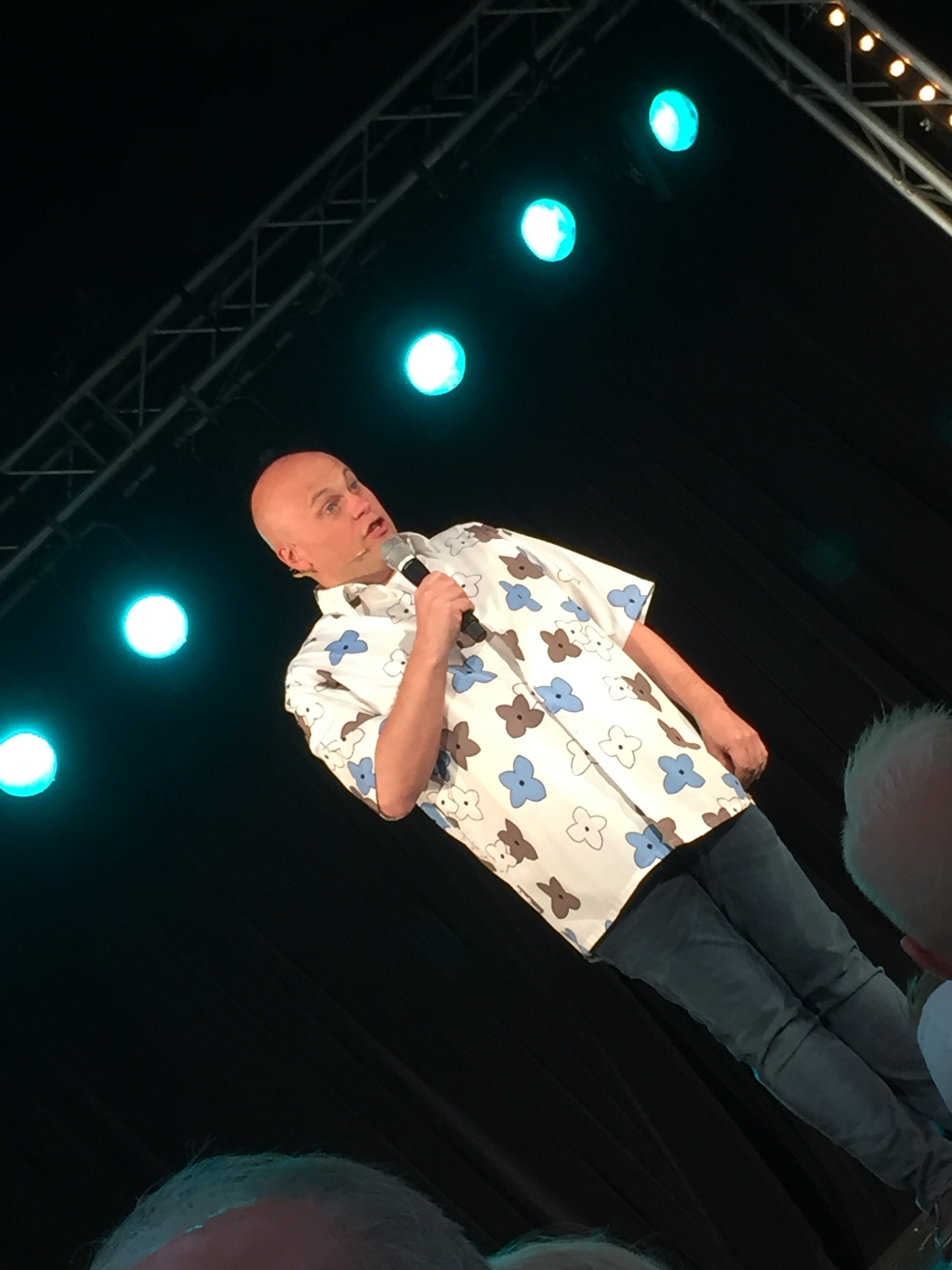 "Hønefossrevyen", a yearly show in Hønefoss, Norway.